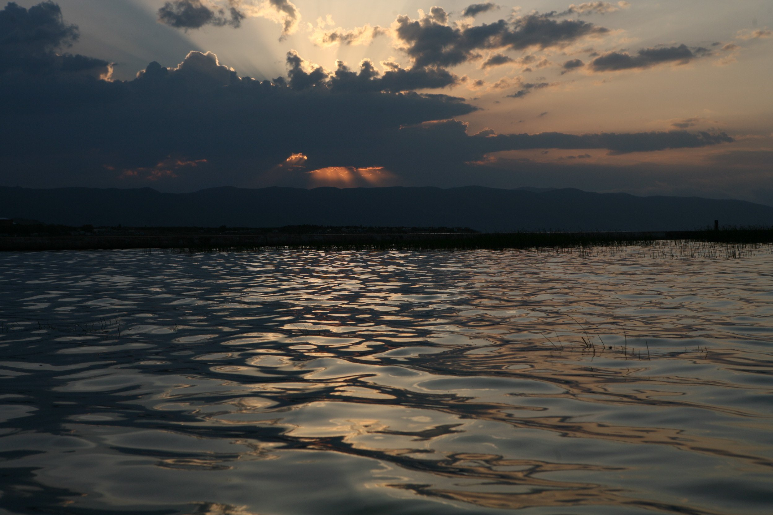 Lake Sevan